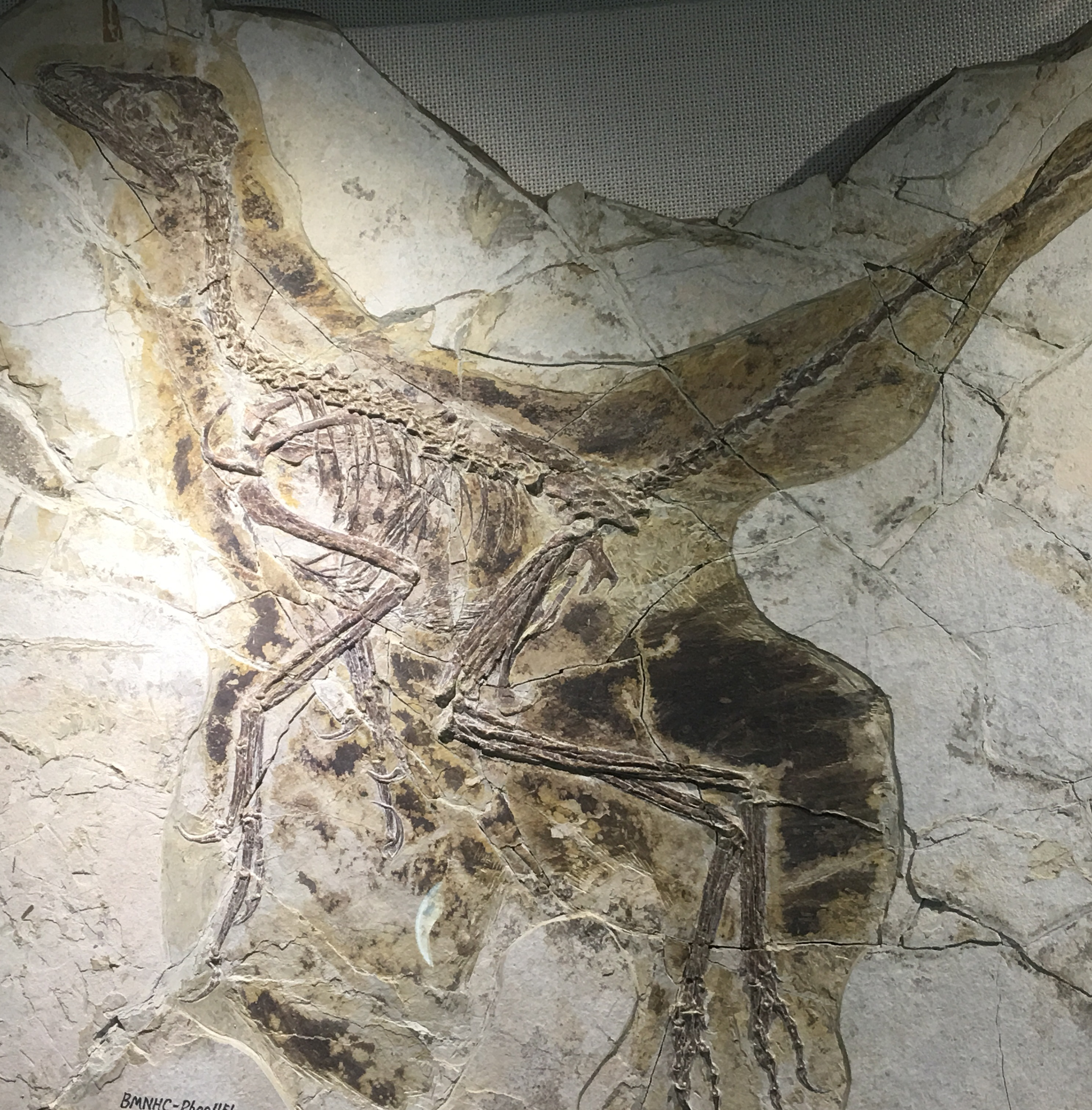 Image of specimen in the Beijing Museum of Natural History, China